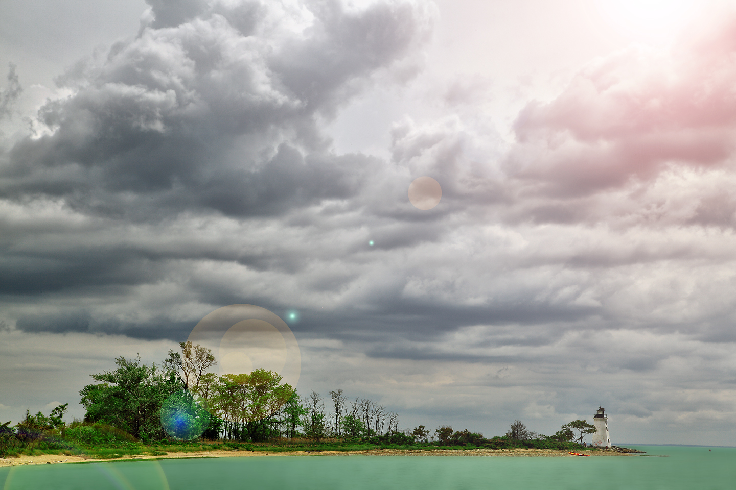 The lighthouse now becomes an attraction and is open to the public.